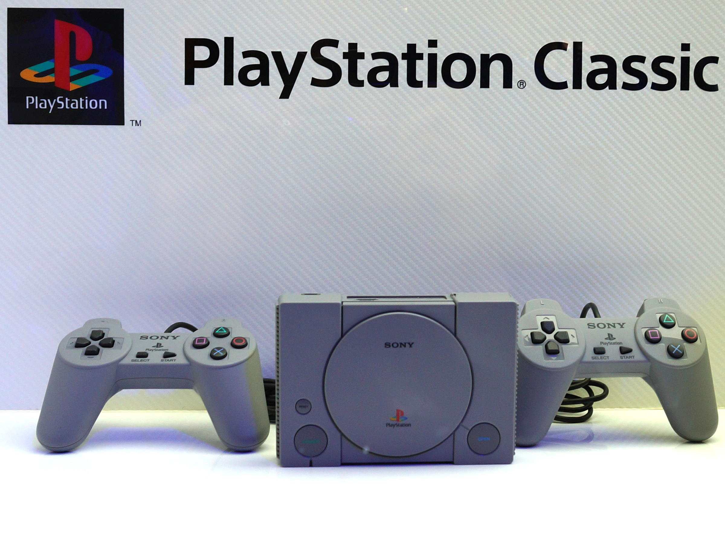 中文（台灣）: 2019台北國際電玩展世貿一館展區，台灣索尼互動娛樂攤位展示的PlayStation Classic樣機。